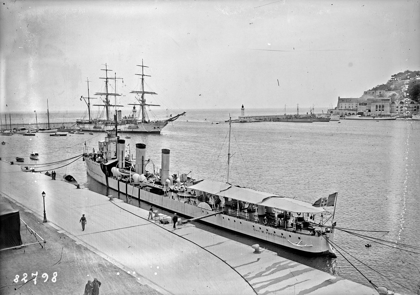 Italian destroyer Generale Marcello Prestinari photographed in Monaco, with sailing ship Amerigo Vespucci in the background.